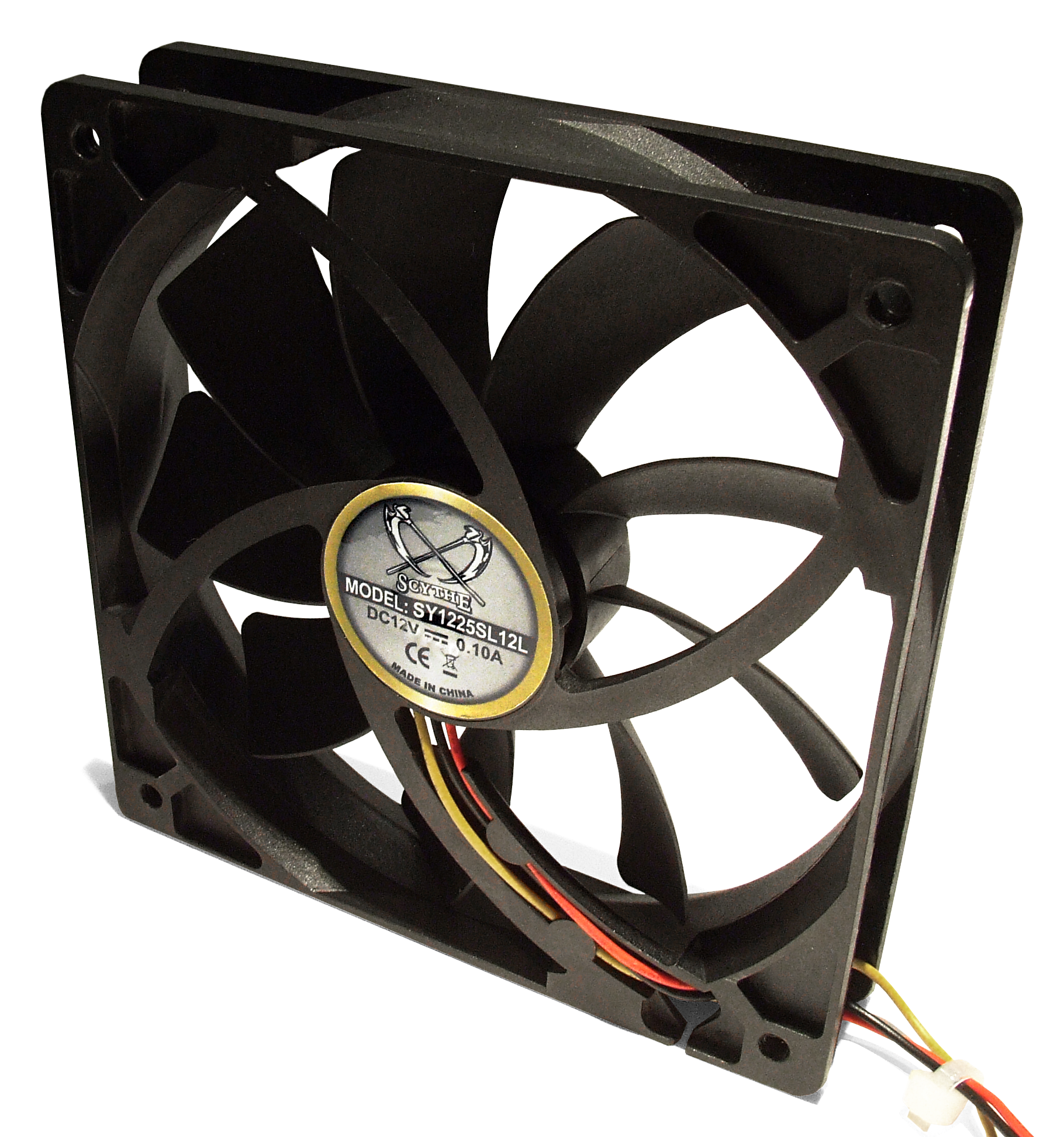 Scythe SY1225SL12L axial fan, which is sold as the Slip Stream 120 800rpm. Technical specifications: Dimensions: 120x120x25mm Bearing: sleeve Operating voltage: 5-12V DC Current (max): 0.1 A Rated RPM: 800 Air flow (max): 40.2 CFM